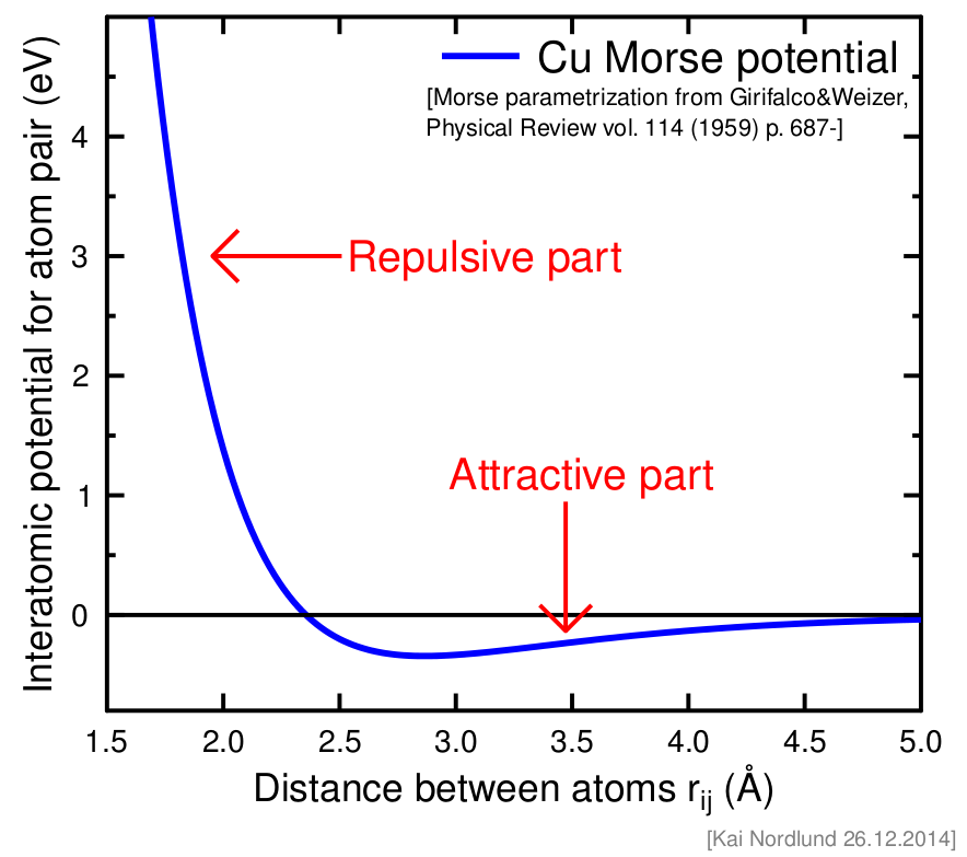 Interatomic potential for two Cu atoms, as obtained from the Morse potential. Made for the purpose of illustrating interatomic potentials.